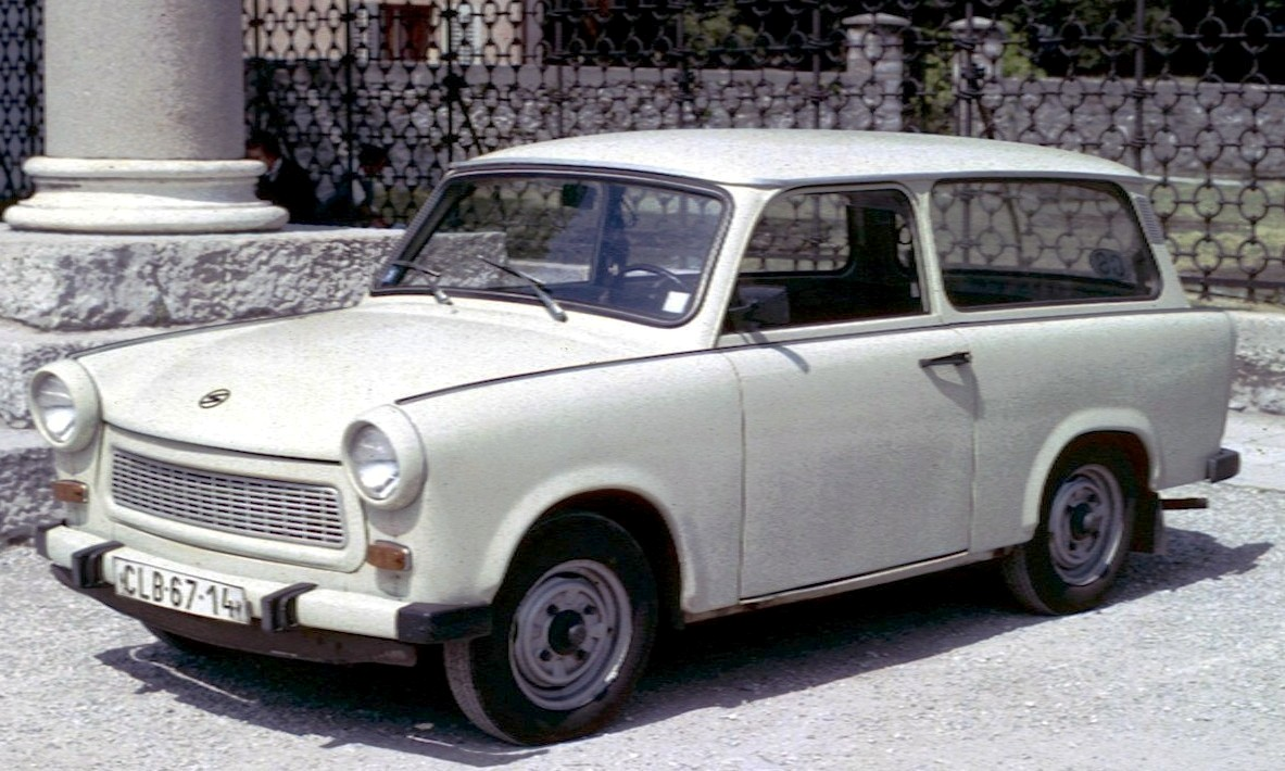 Trabant 601 Estate near the basilica at Aquileia